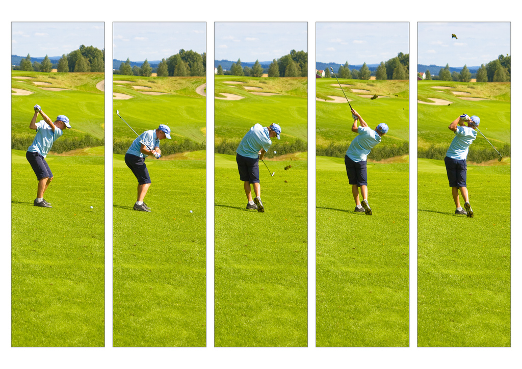 A golf swing. Original description on says: Golf swing as it should be excecuted. My 13 year old nephew shows how a golf swing should be excecuted.